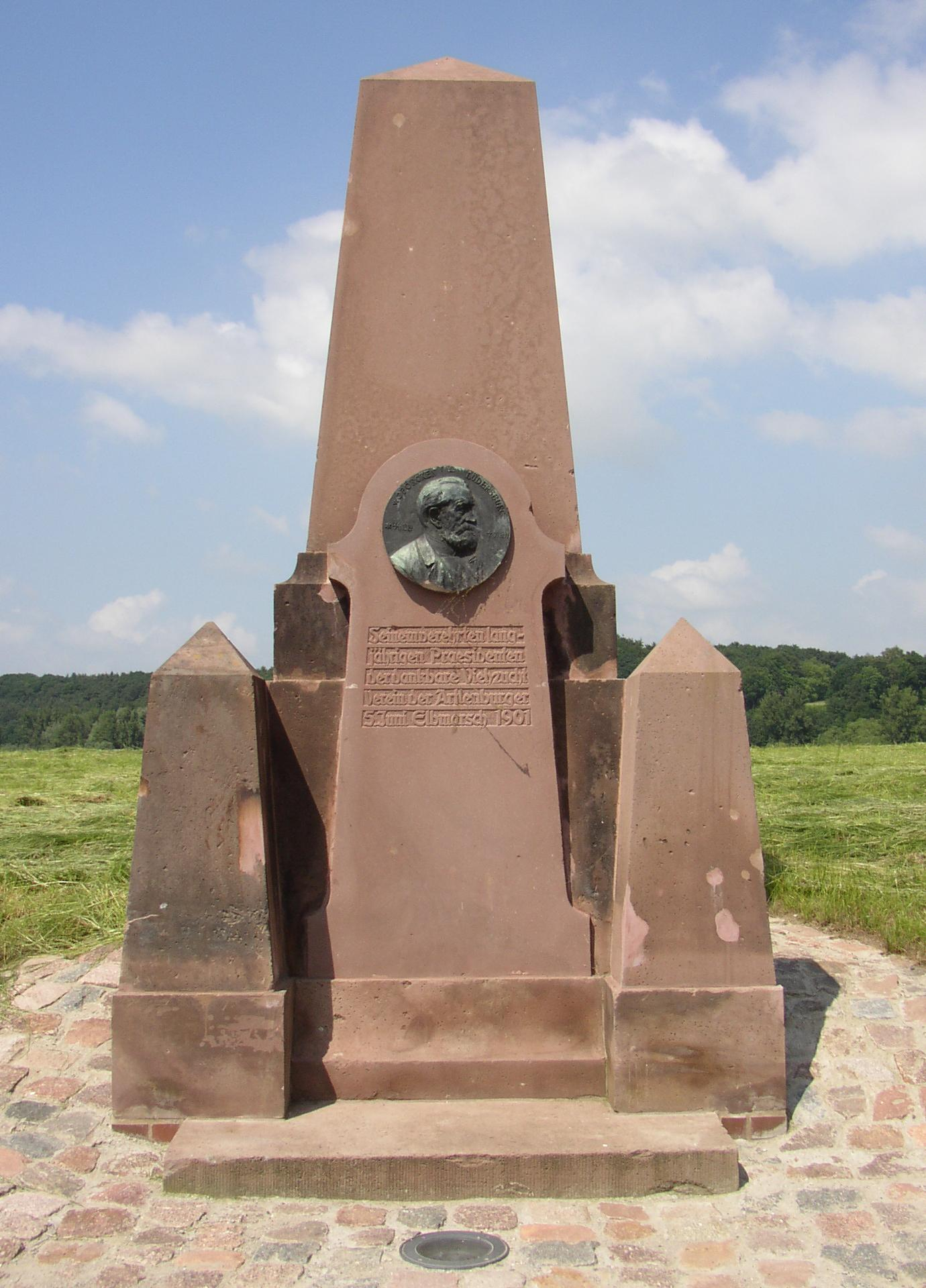 Memorial in Artlenburg in Lower Saxony, Germany